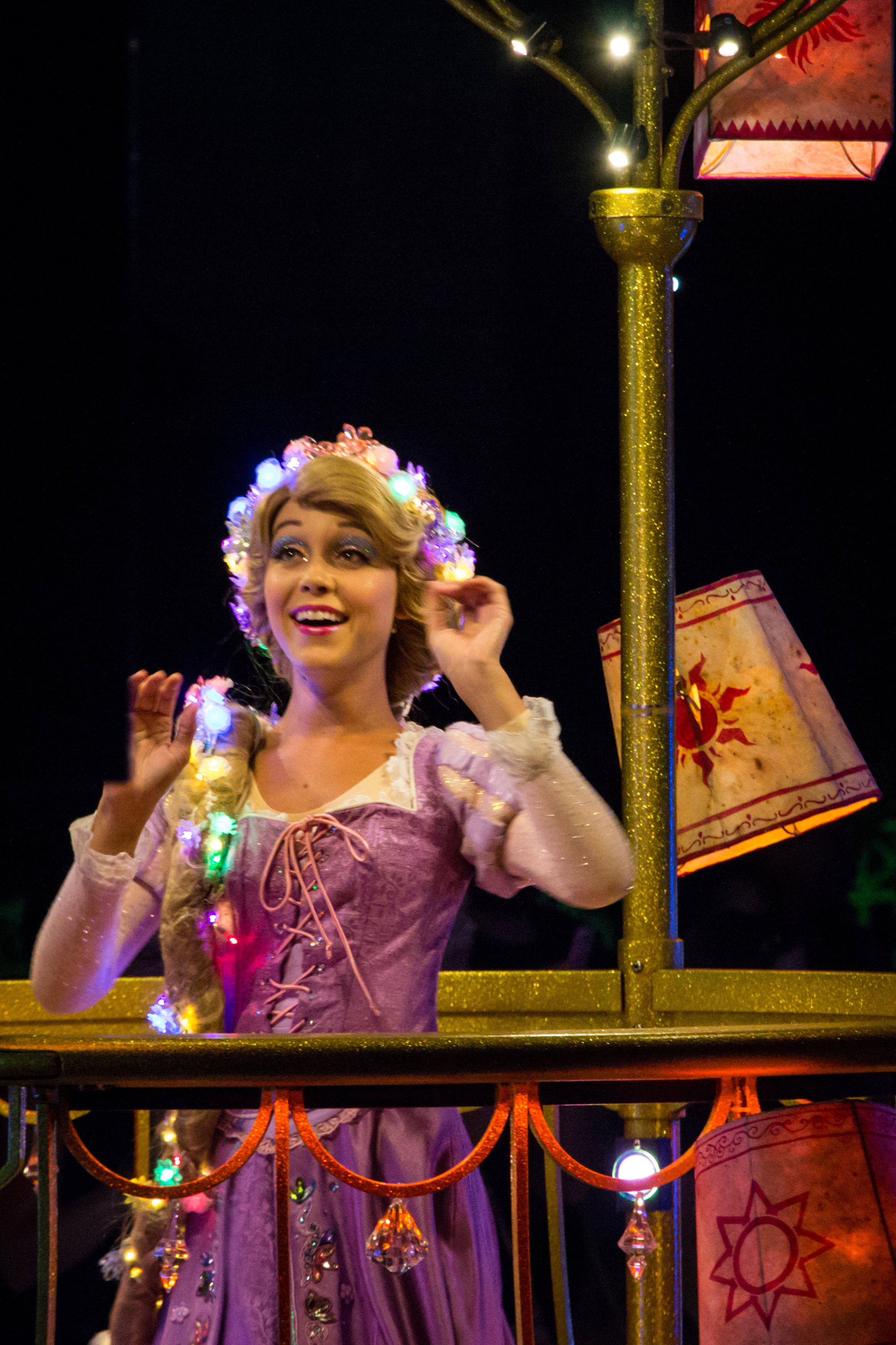 The fabulous Paint the Night parade in Disneyland.